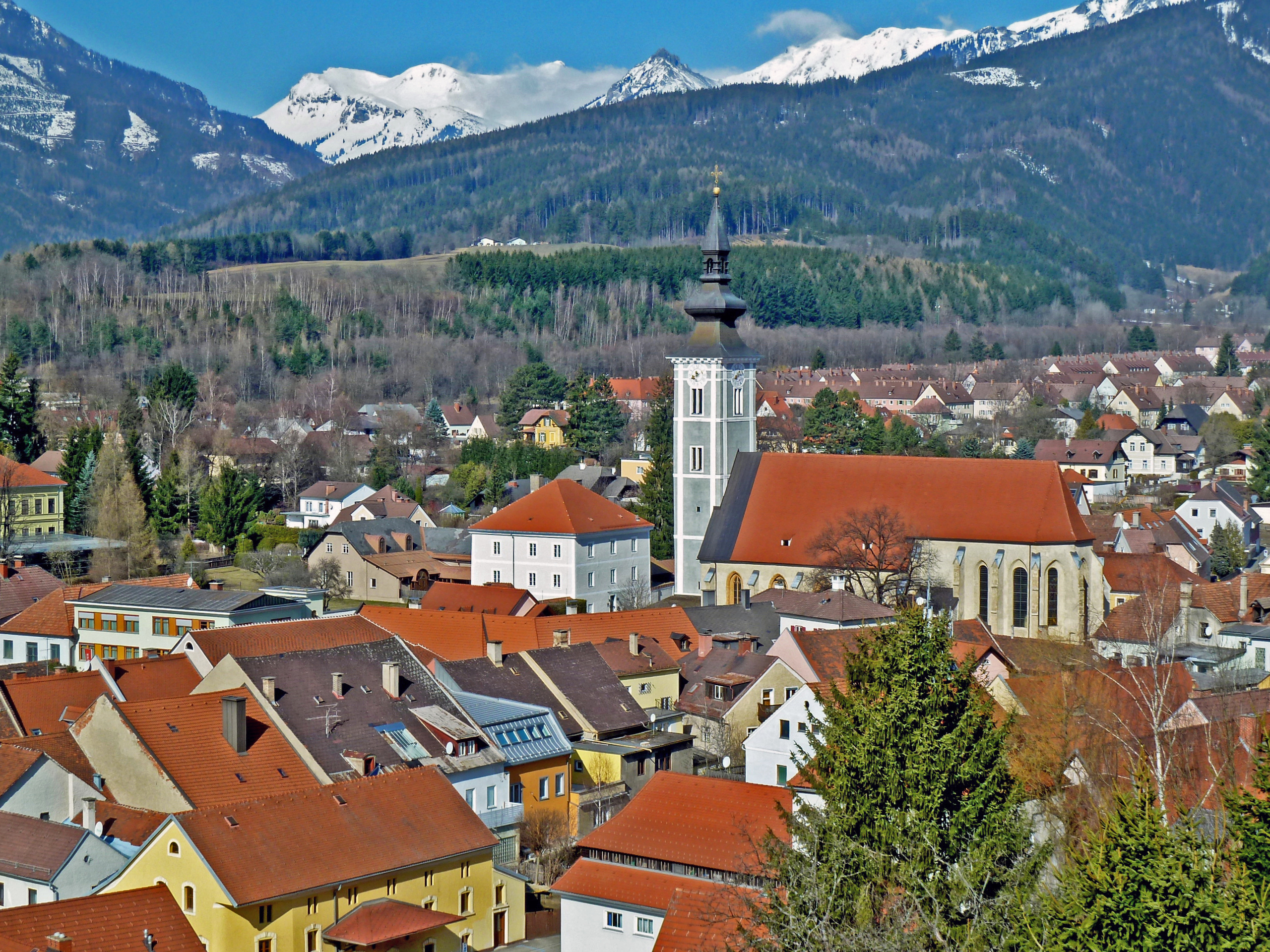 Trofaiach Centre with parish church